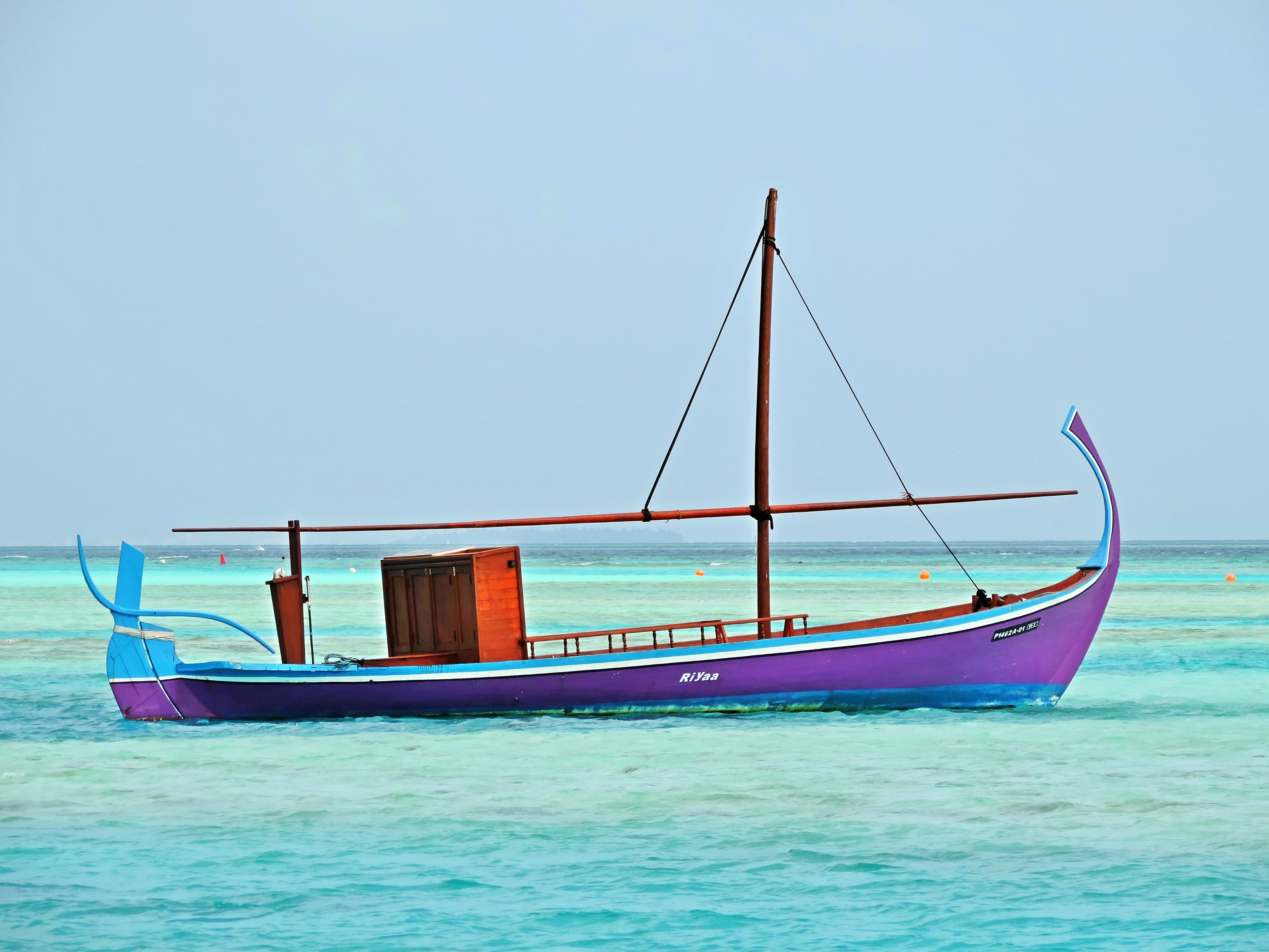 Dhoni in Maldives